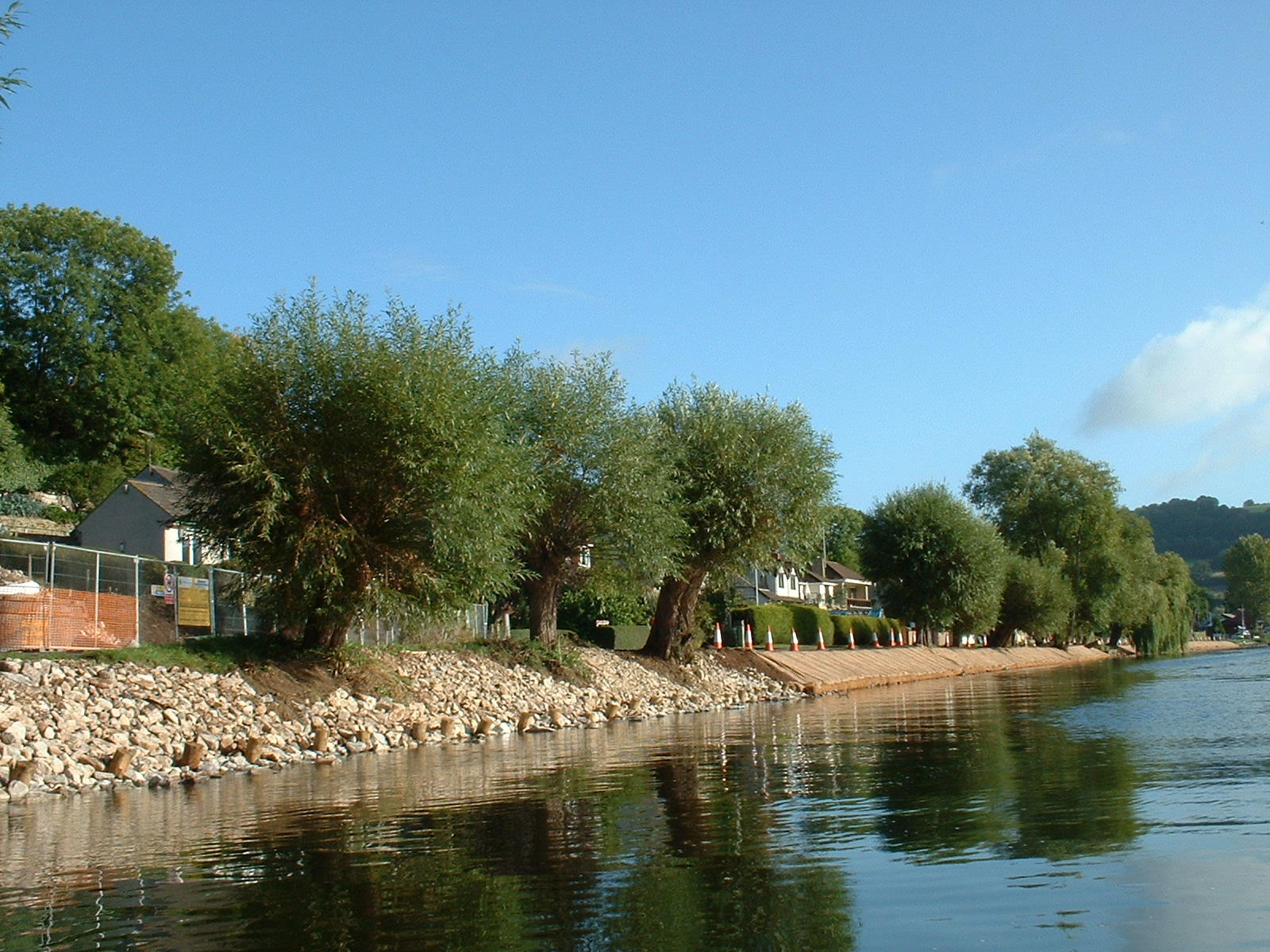 River bank repair on the River Avon, at Mead Lane Saltford. The bank is being strengthened with boulders and logs as seen on the left, then covered with a jute or hessian material which allows plant growth through the material. Work carried out for British Waterways.